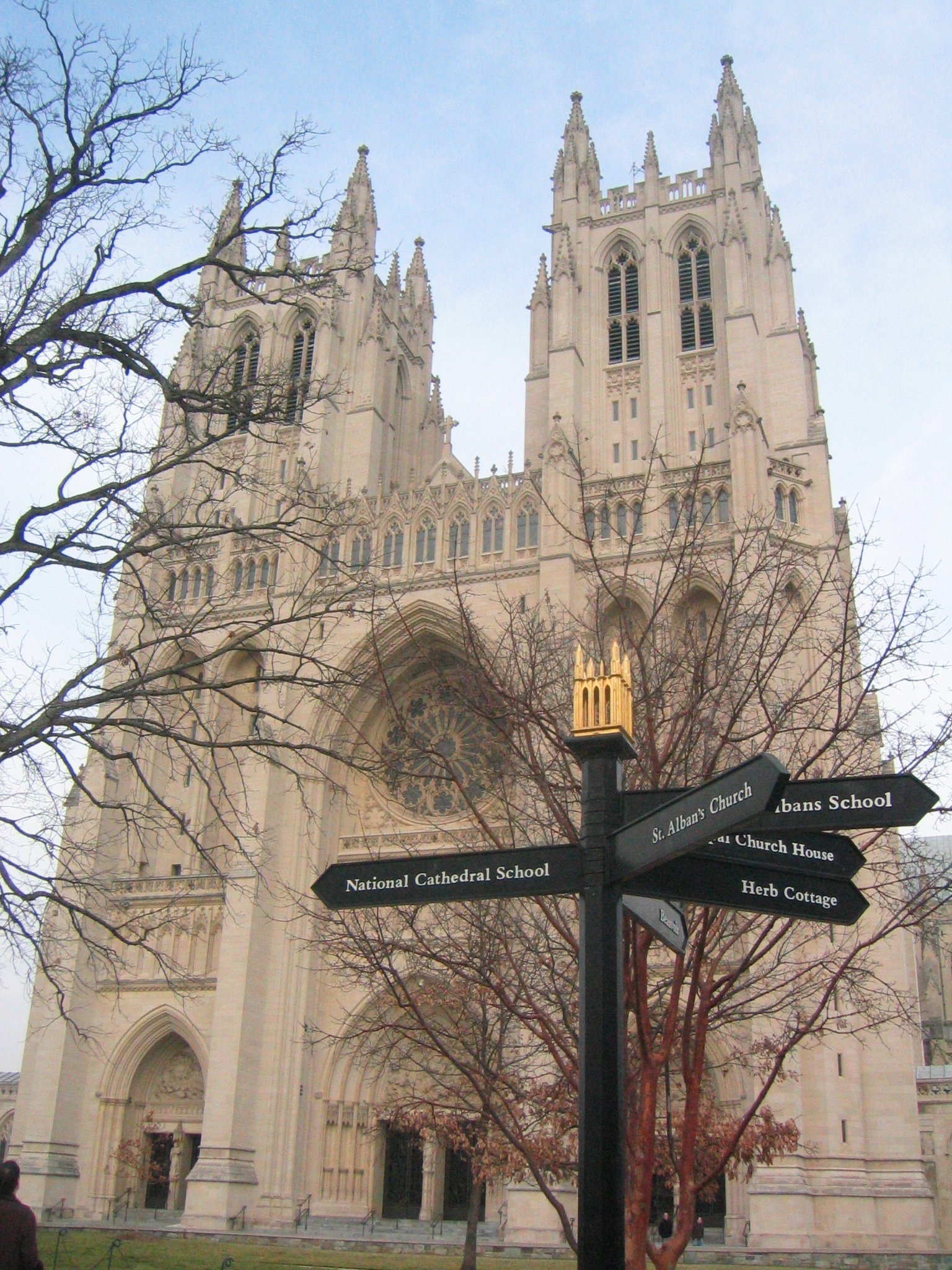 The exterior of the National Cathedral in Washington, D.C.